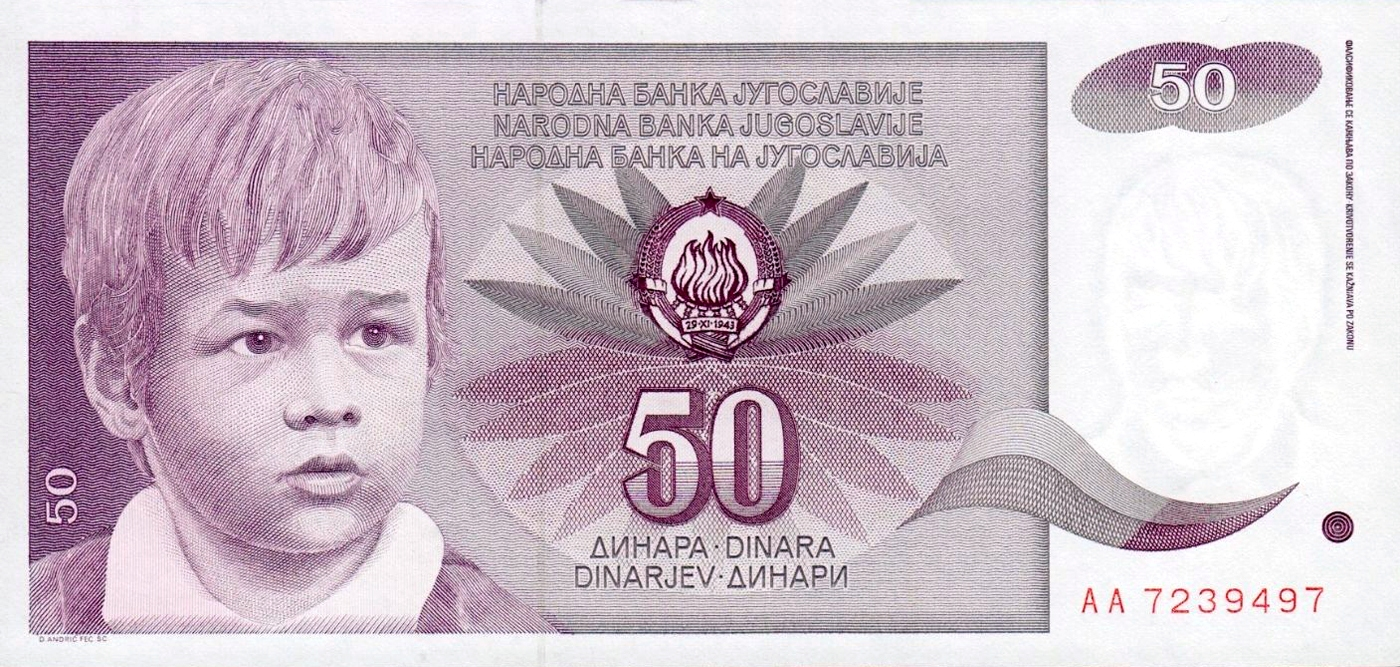 50 Yugoslav dinars (1990)